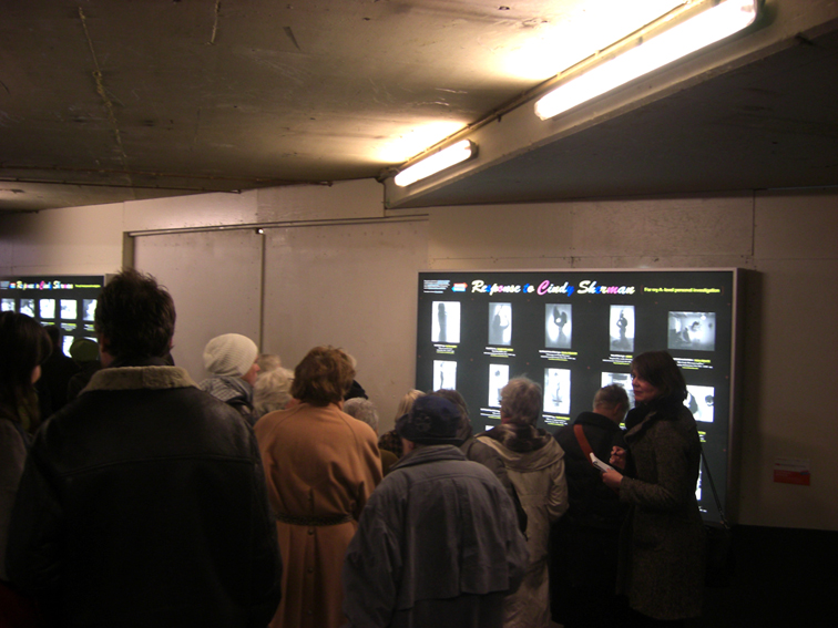 Launching of 'Response to Cindy Sherman' at the Central Station of Amsterdam in the central passageway.